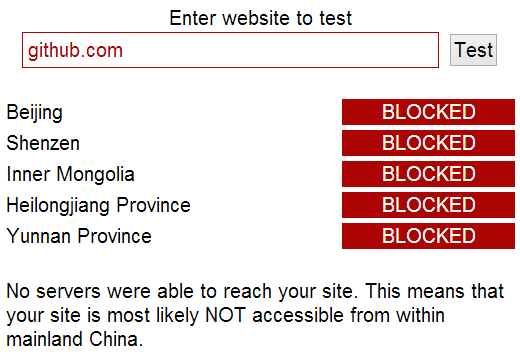 On January 21, 2013, GitHub was blocked in China using DNS hijacking. This screenshot was taken by the Next Web from the website showing the block.